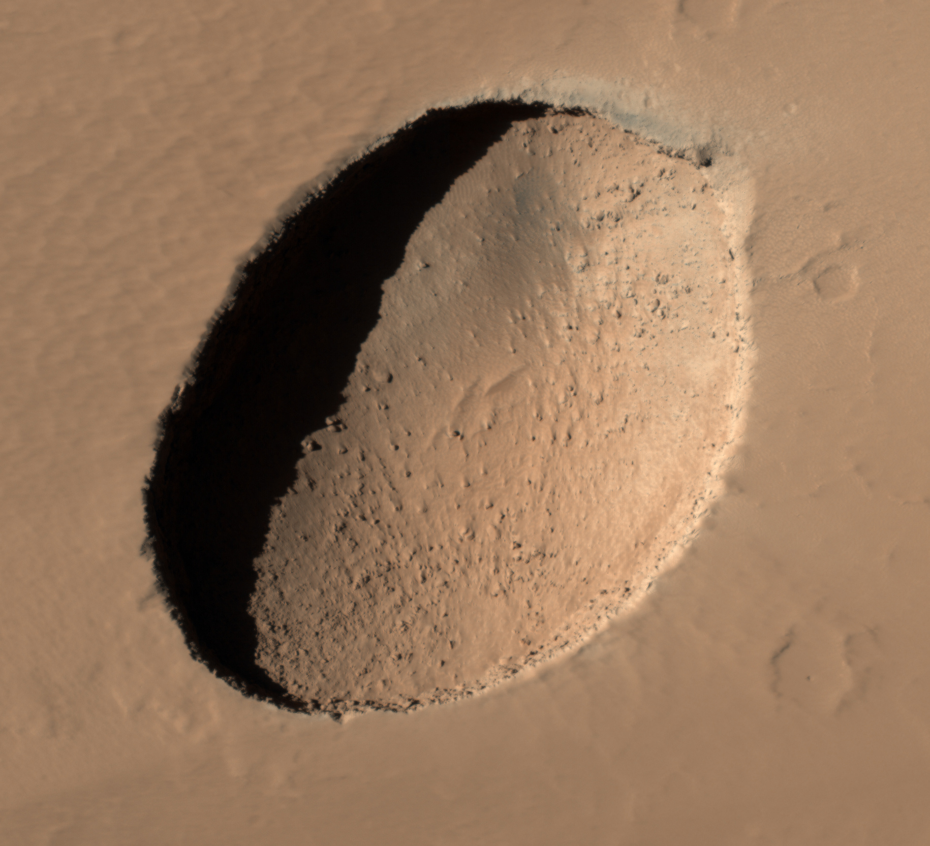 A collapse pit in the Ceraunius Fossae region on Mars. The image is taken from a much larger observation done by the HiRISE instrument aboard the Mars Reconnaissance Orbiter. Image resolution is 28.6 cm per pixel.